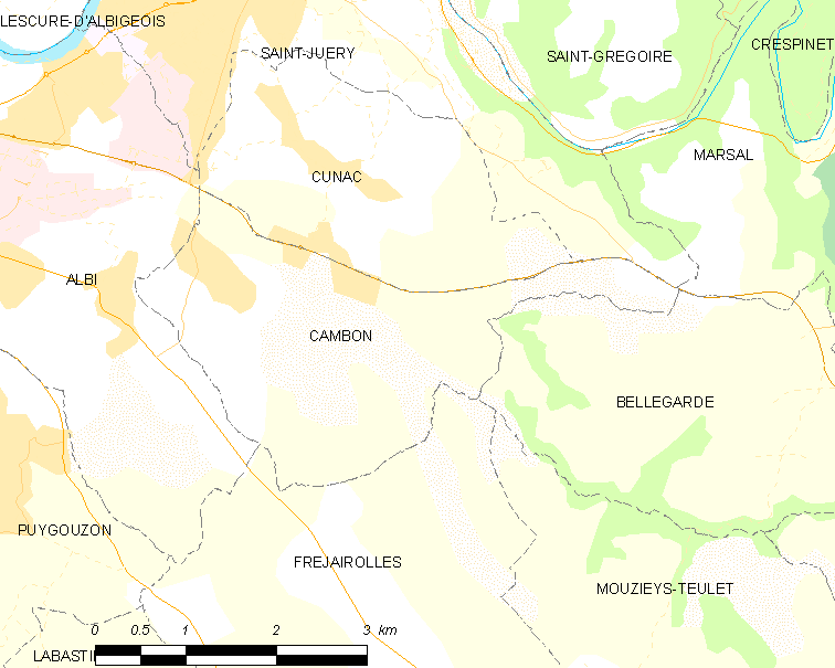 Map of French municipality Cambon